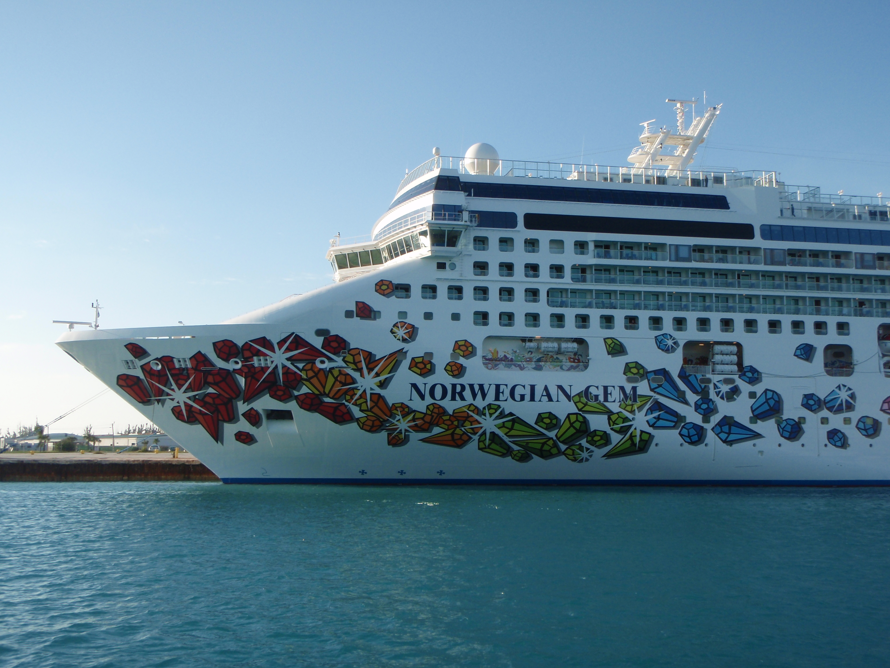 The "Norwegian Gem", a cruise ship operated by the "Norwegian Cruise Line" and built in Papenburg, Germany 2006-2007. The photo was taken in Freeport, Bahamas at the 13th of March, 2008.